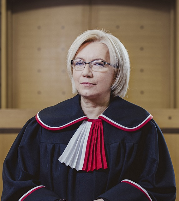 Julia Przylebska - President of the Constitutional Tribunal